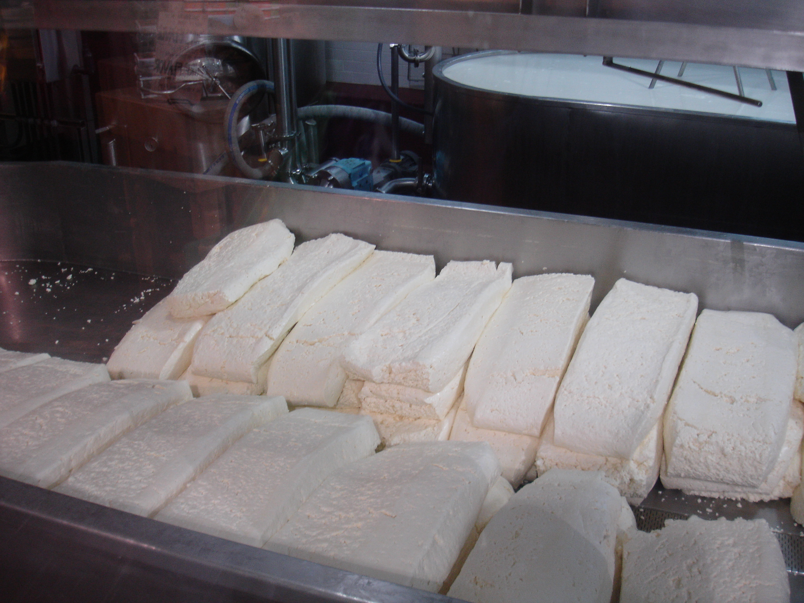 Cheese curd, Beecher's, Pike Place Market